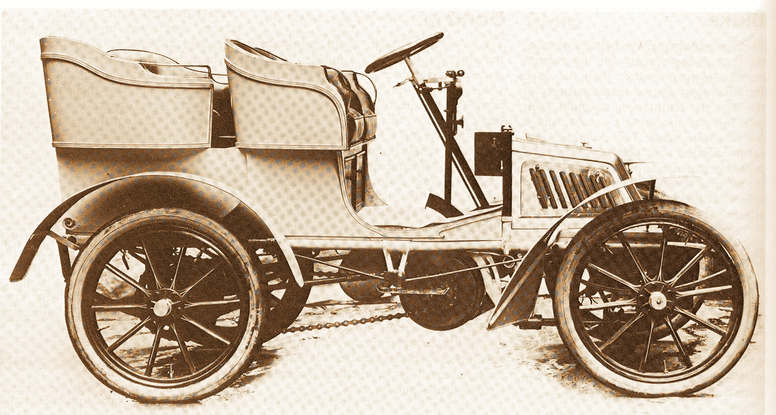 1901 British Ideal